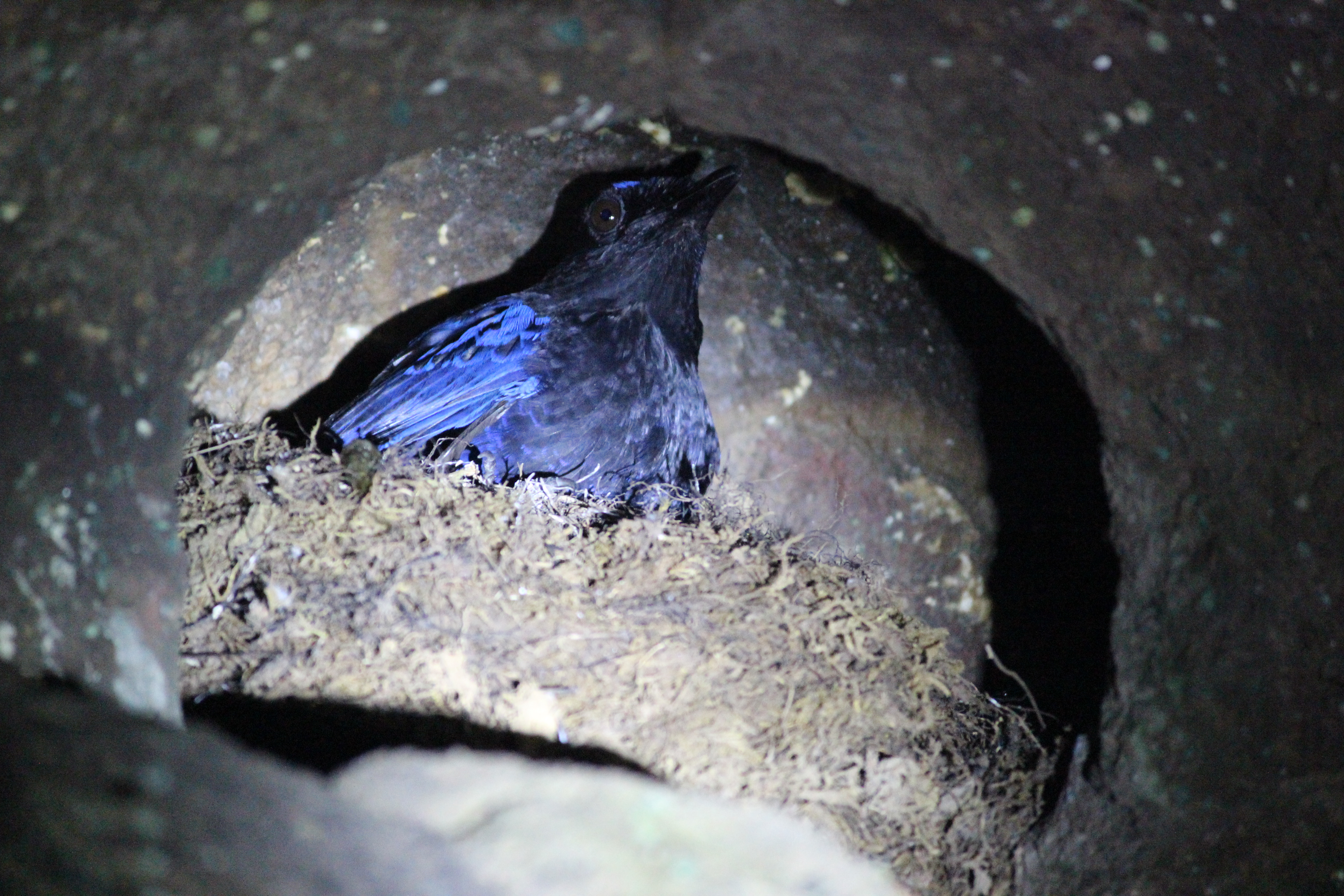 Malabar Whistling Thrush at the nesting site.